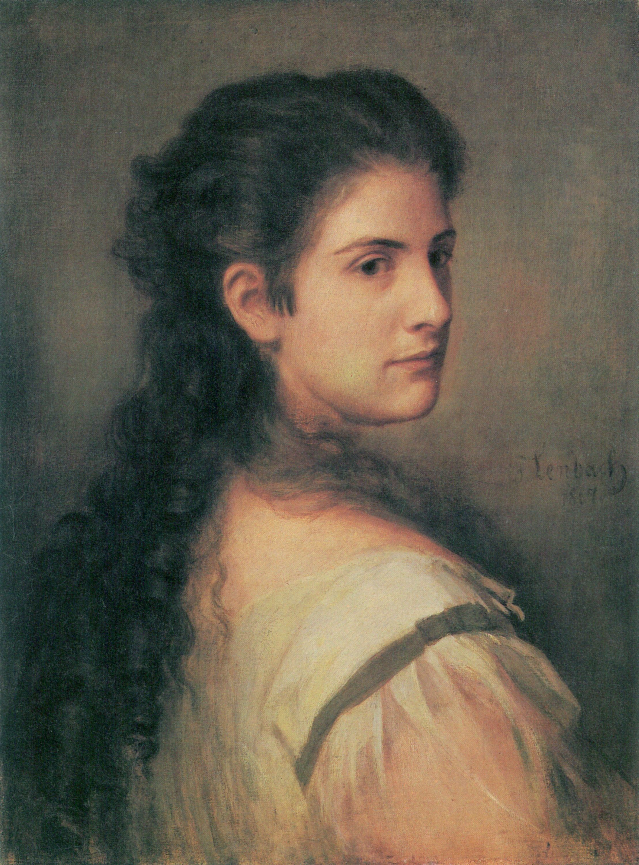 Portrait of Anna Schubart